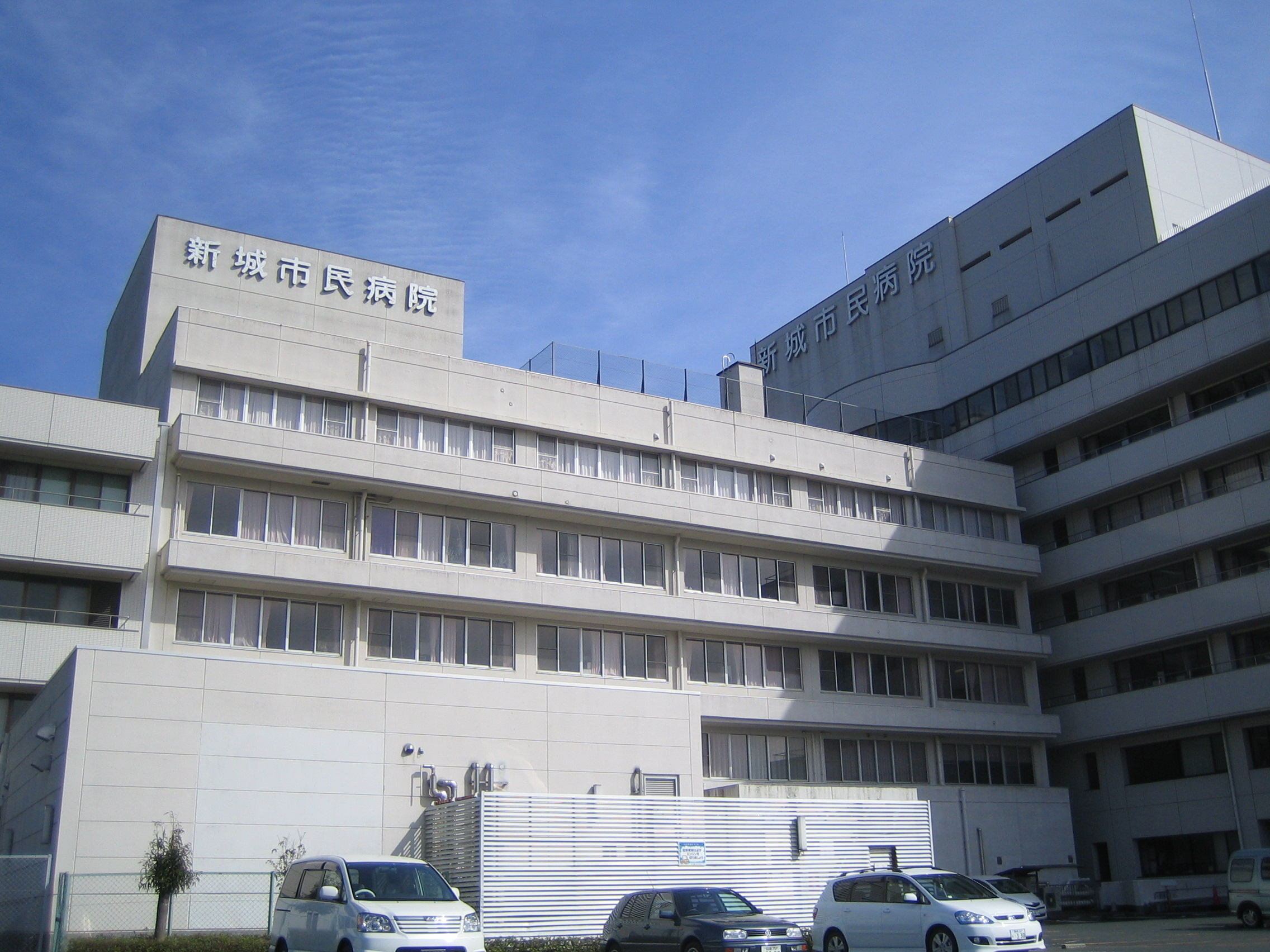 新城市民病院。愛知県新城市 Shinshiro Municipal Hospital (新城市民病院 Shinshiro Shimin Byōin), located in Shinshiro, Aichi, Japan